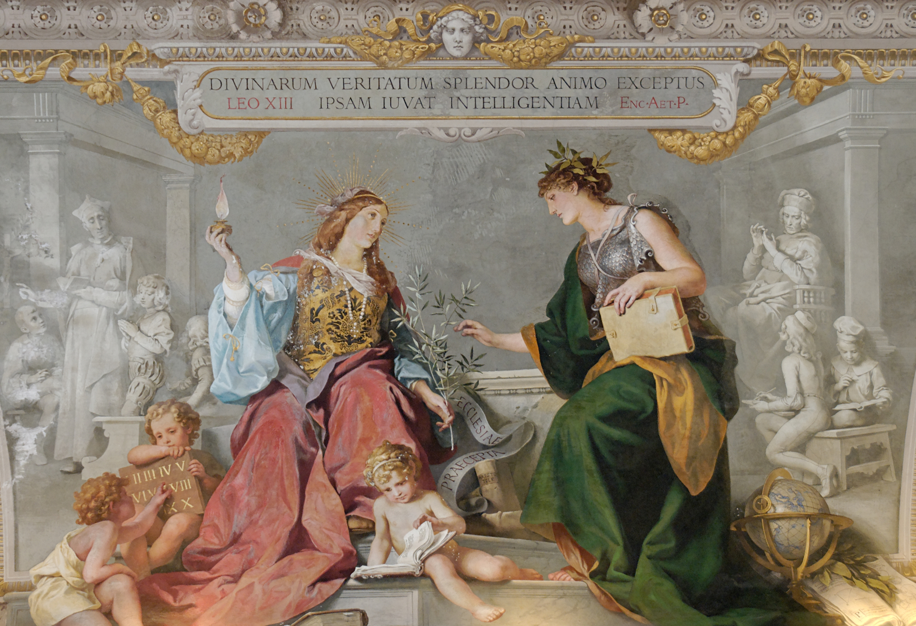 with St Thomas Aquinas teaching in the background and the inscription: "divinarum veritatum splendor, animo exceptus, ipsam juvat intelligentiam", from Leo XIII's encyclical Aeterni Patris (13).